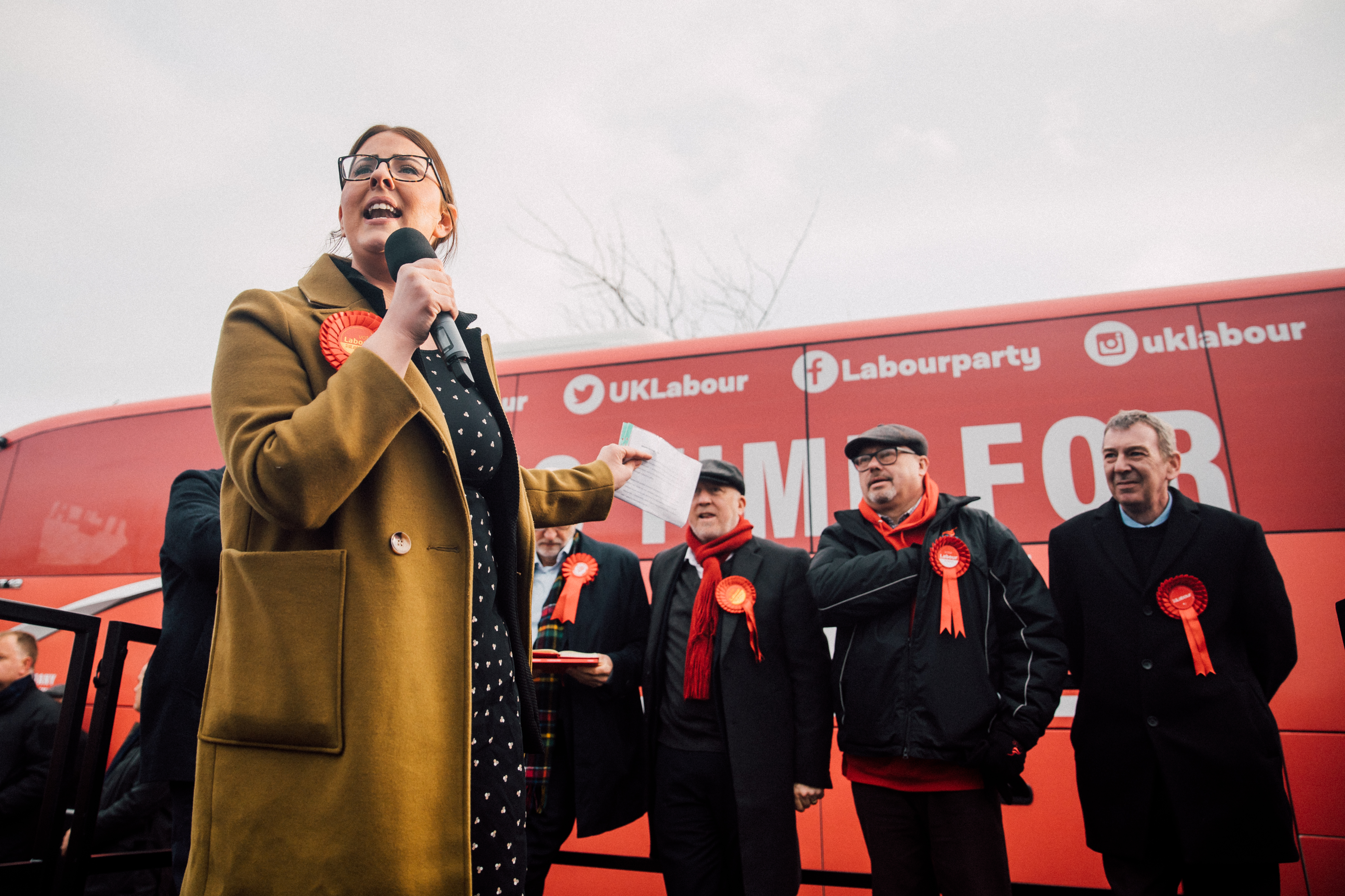 A pleasure to visit Middlesbrough and spead Labour's message of real change for the many, not the few. (11th December, 2019) Nine years of Tory governments have devastated our NHS, schools, public services and communities. It’s time for a government that works for the many, not the few. Vote Labour on December 12th.